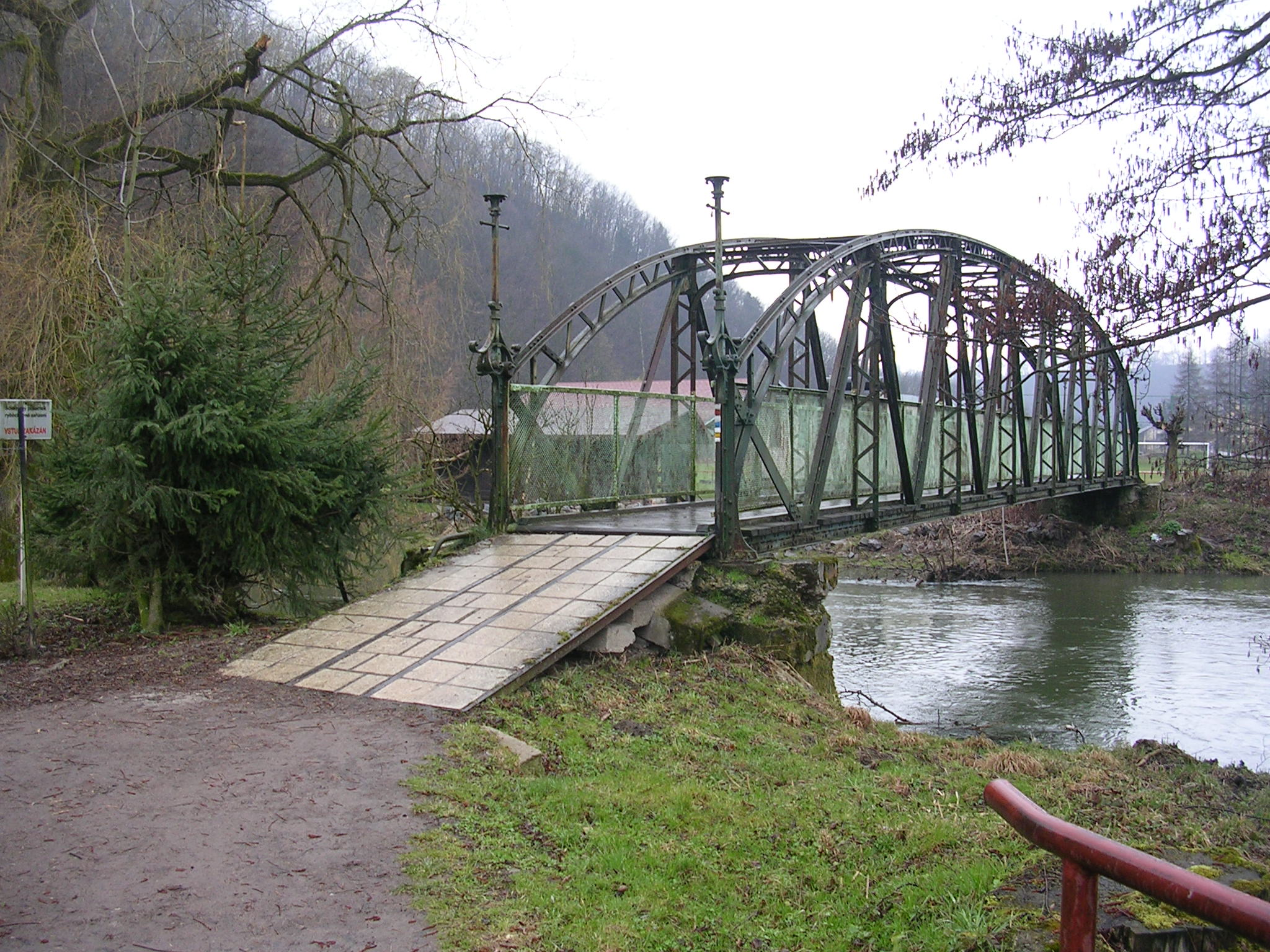 Brandýs nad Orlicí, the Czech Republic.